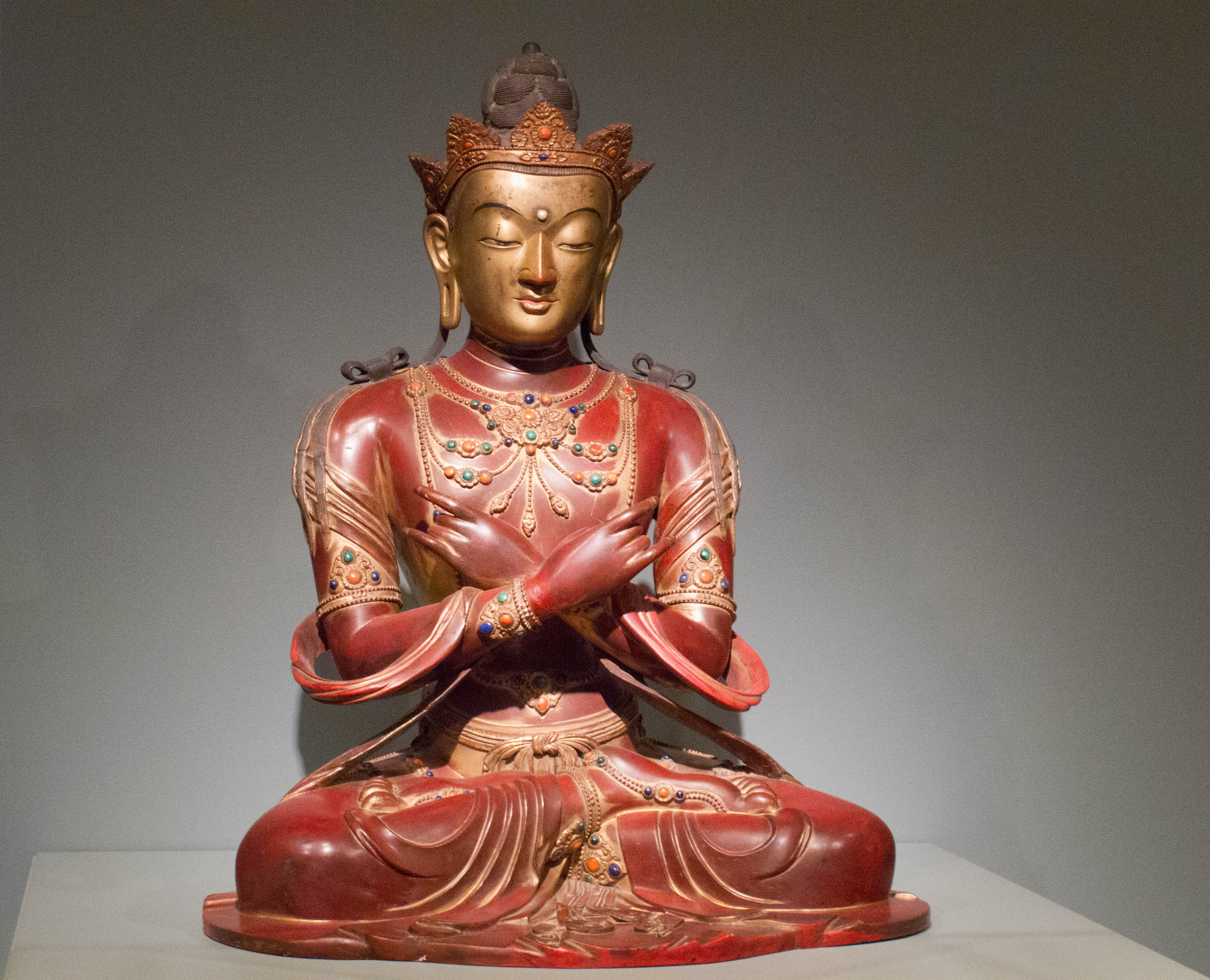 The buddhist deity Vajradhara. Hollow dry lacquer inlaid with semiprecious stones, H. 78.7 cm x W. 59.6 cm x D. 48.3 cm. Probably 1736-1795, Chengde, Hebei province. Qing dynasty. This sculpture combines the ancient Chinese tradition of lacquered wood sculpture with Tibetan symbolism and decorative approaches. The Manchu emperors of the Qing dynasty maintained close relations with the leading religious families in Tibet, and Tibetan Buddhism was practiced by many at the Qing court. The Qianlong emperor had a particularly strong attachment to Tibetan Buddhism, and many spectacular works of art were commissioned by the imperial family for use in Tibetan Buddhist temples in Beijing and other centers in northern China during his reign. These works were created under the supervision of Tibetan monks and in a style that is definitely Tibetan; however, many of these sculptures, including this example, were produced at the Qing imperial workshops and most likely by Chinese artisans.